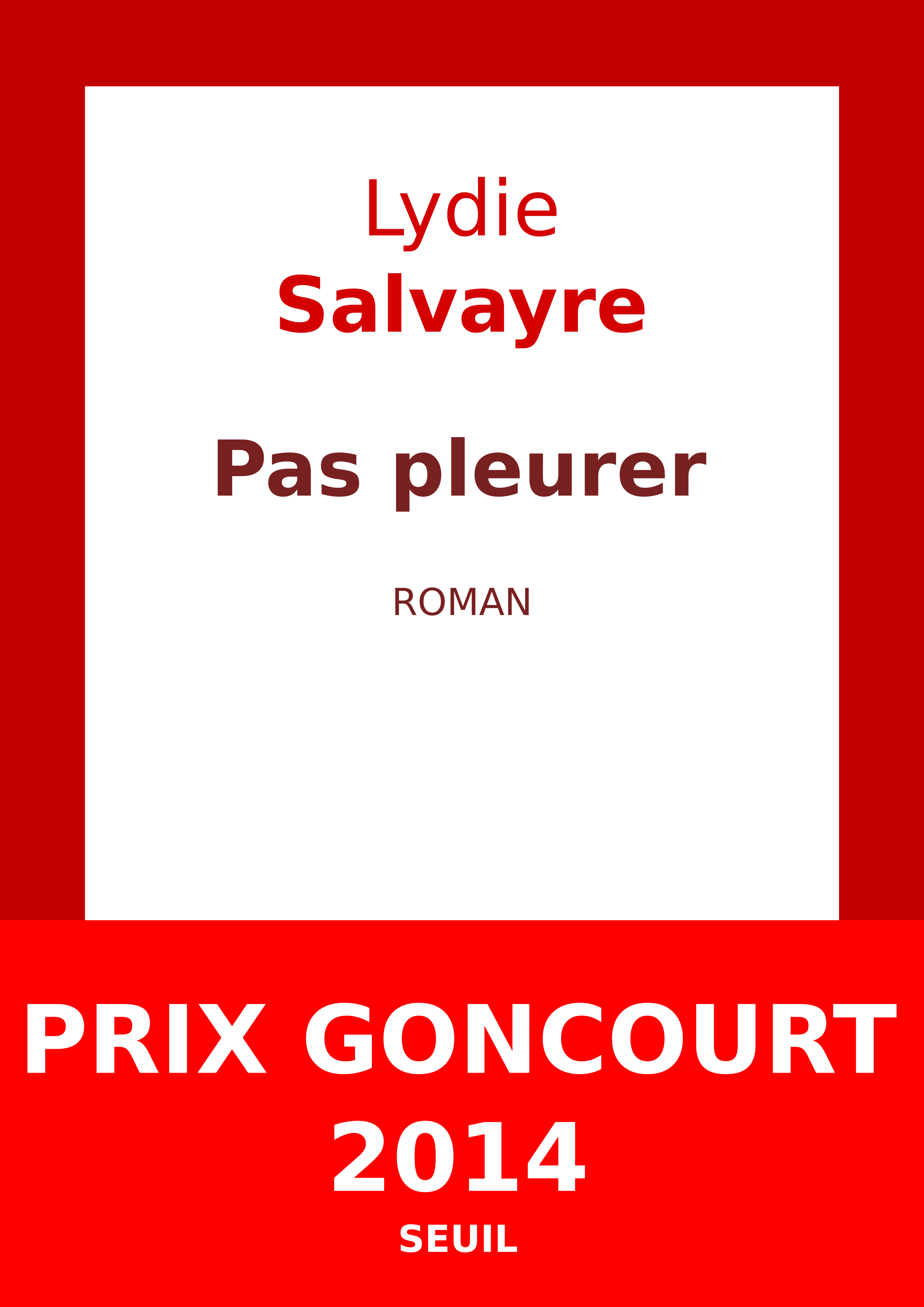 Cover of Lydie Salvayre's book: Pas pleurer.